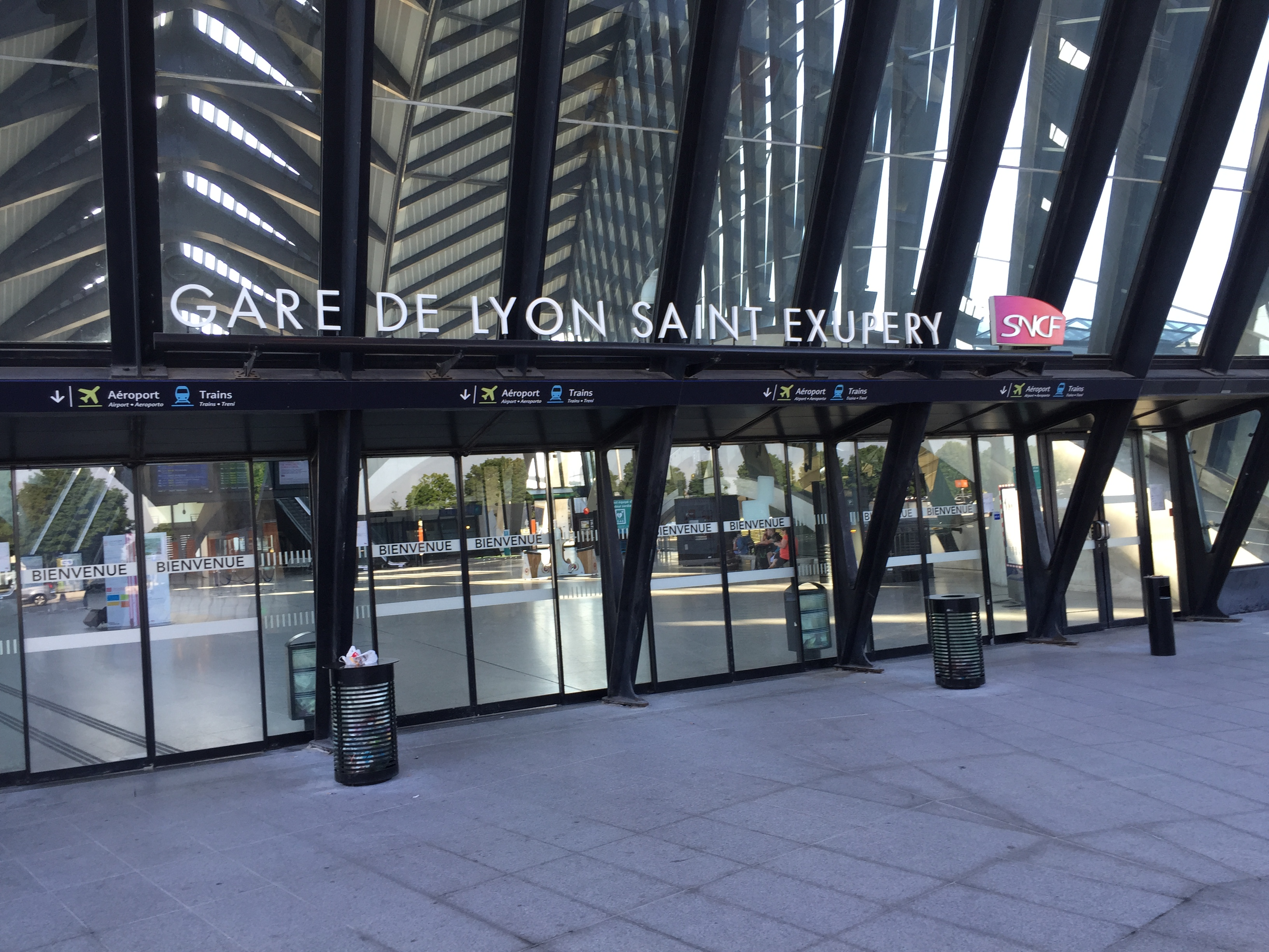 This photograph was taken with an iPhone 6